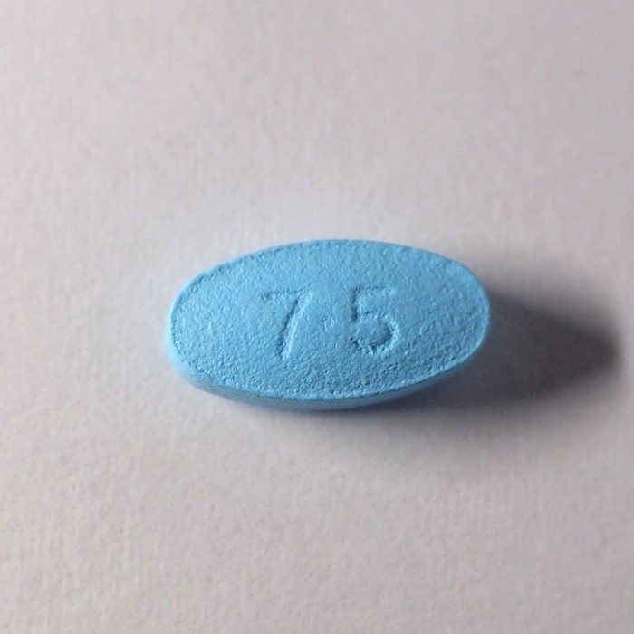 a close up of a Zopiclone tablet, 7.5 mg.